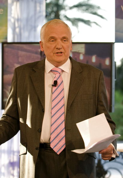 MARRAKECH/MOROCCO, 27OCT10 - Nik Gowing, Main Presenter, BBC World News, United Kingdom - BBC Debate Making Peace in the Middle East: are the Right People Talking? - World Economic Forum on the Middle East and North Africa Marrakech, Morocco, 27 October 2010. Cropped version of File:Nik Gowing - World Economic Forum on the Middle East 2010.jpg. Copyright World Economic Forum ( by Alan Keohane/still